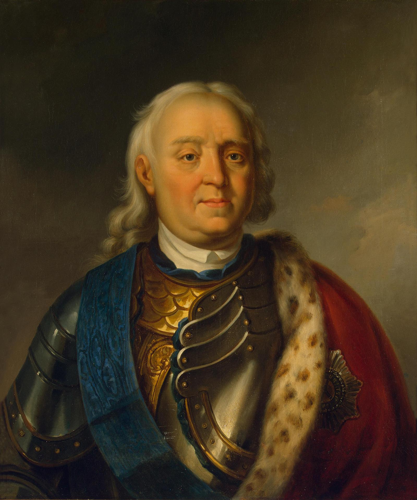 Count Fyodor Matveyevich Apraksin (also Apraxin